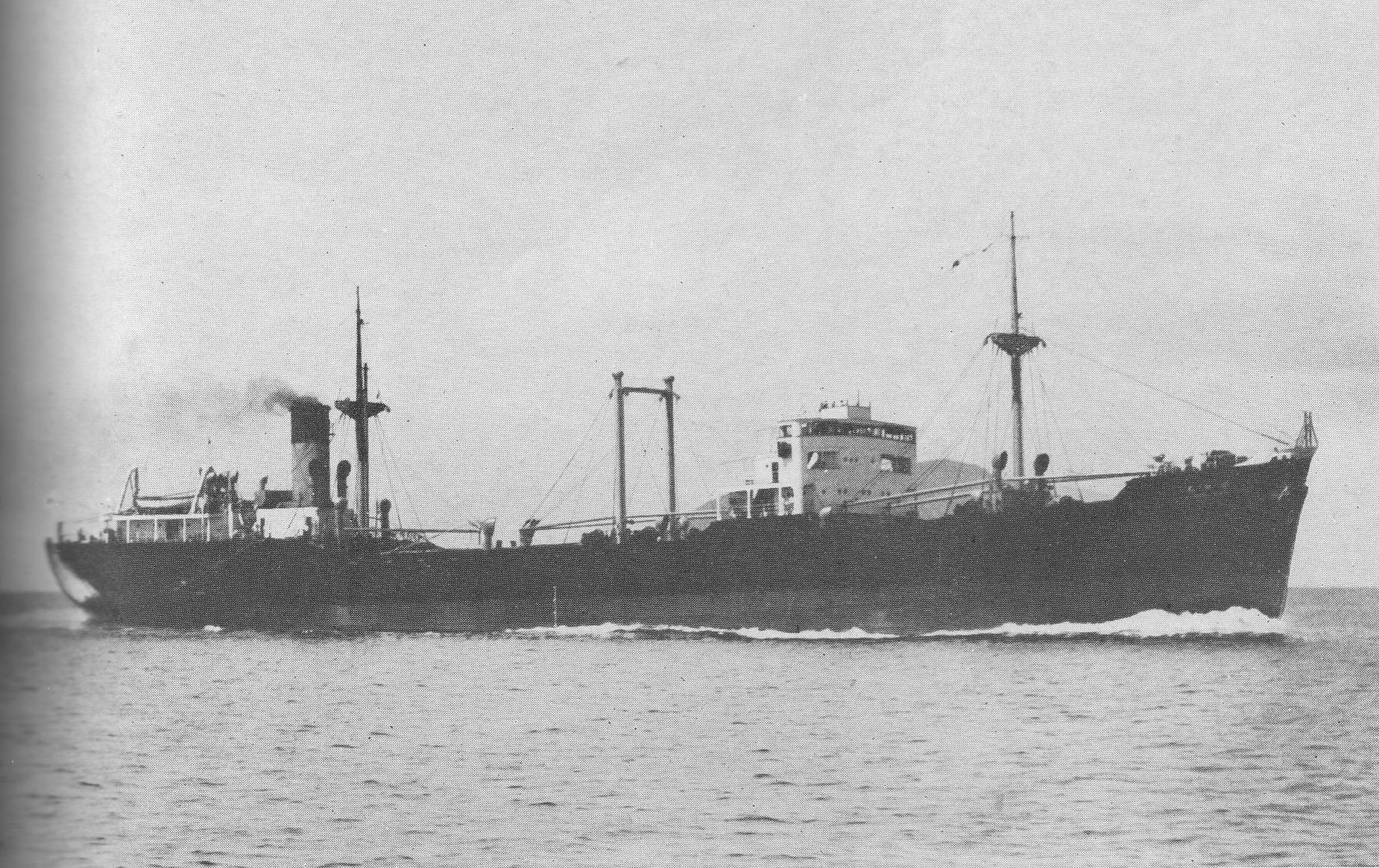 Dairen Kisen "Hinko Maru"